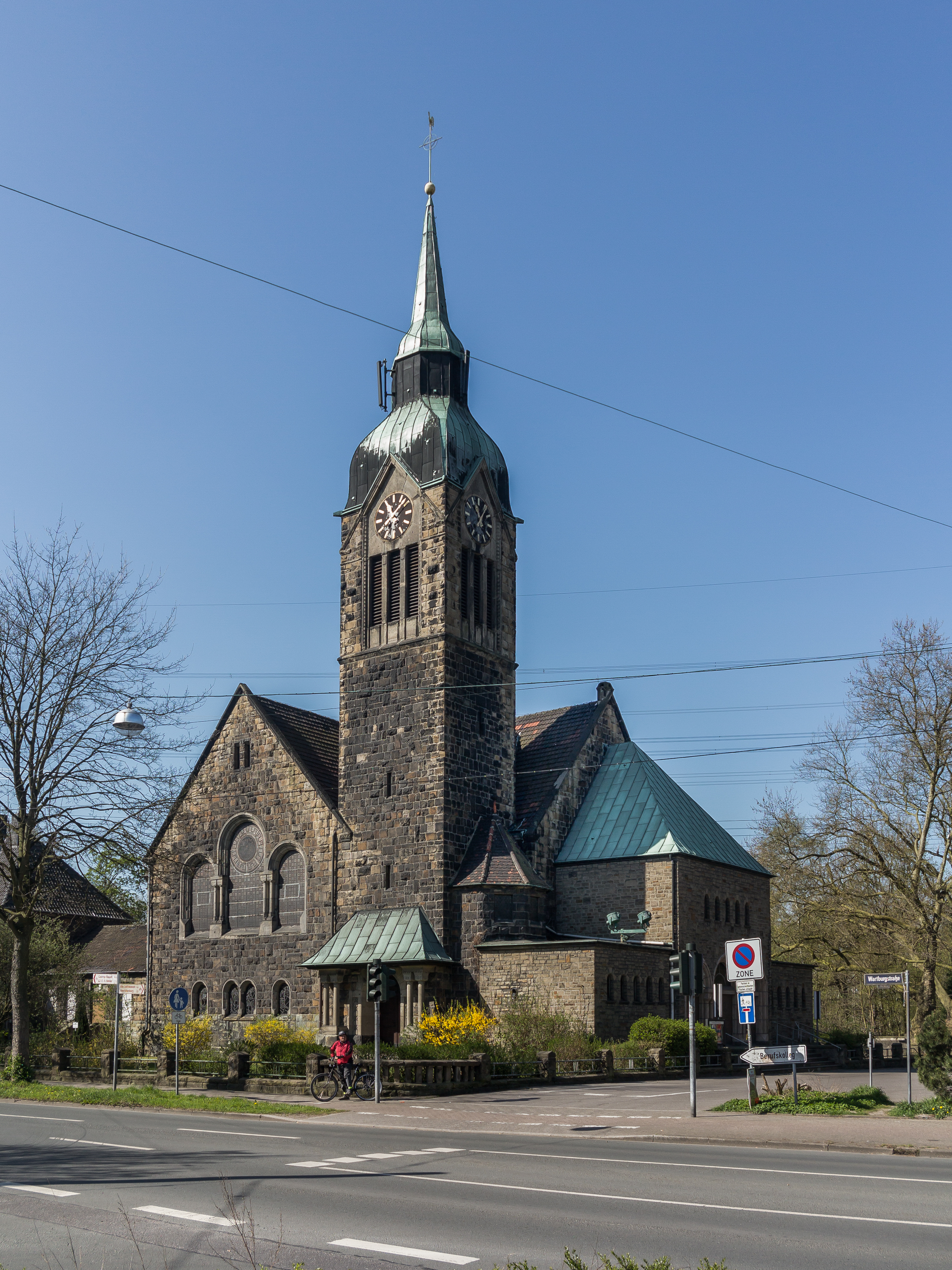 Habinghorst, church: die Petri Kirche